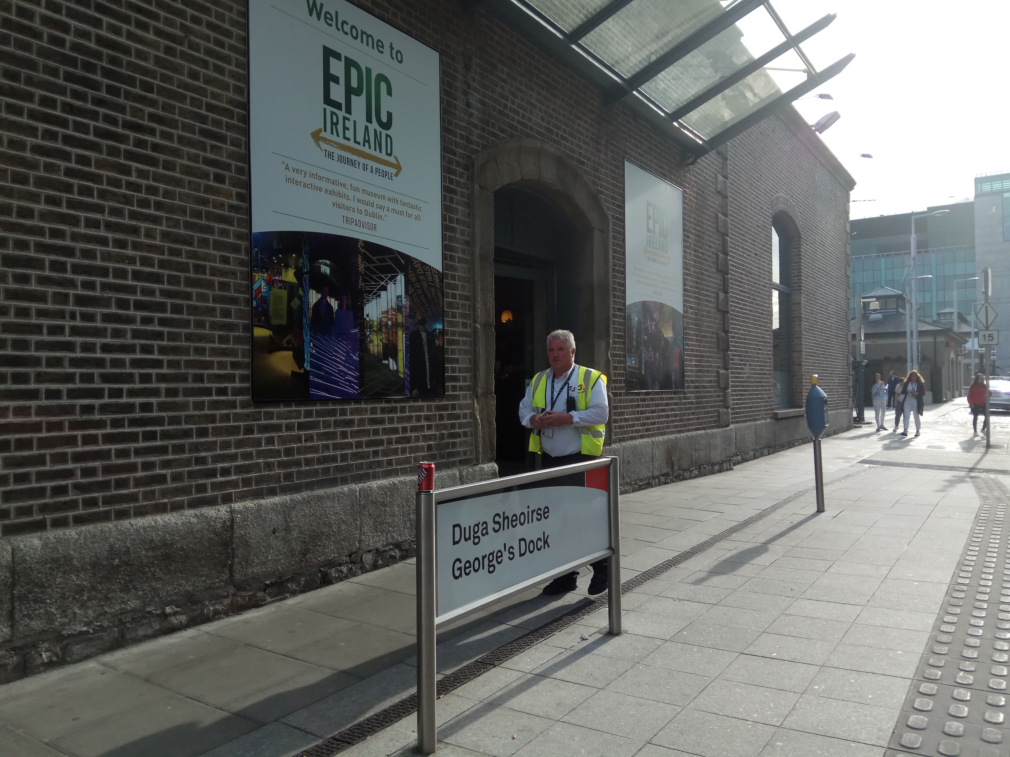 George's Dock (Duga Sheoirse), CHQ building with Epic Ireland museum, Dublin